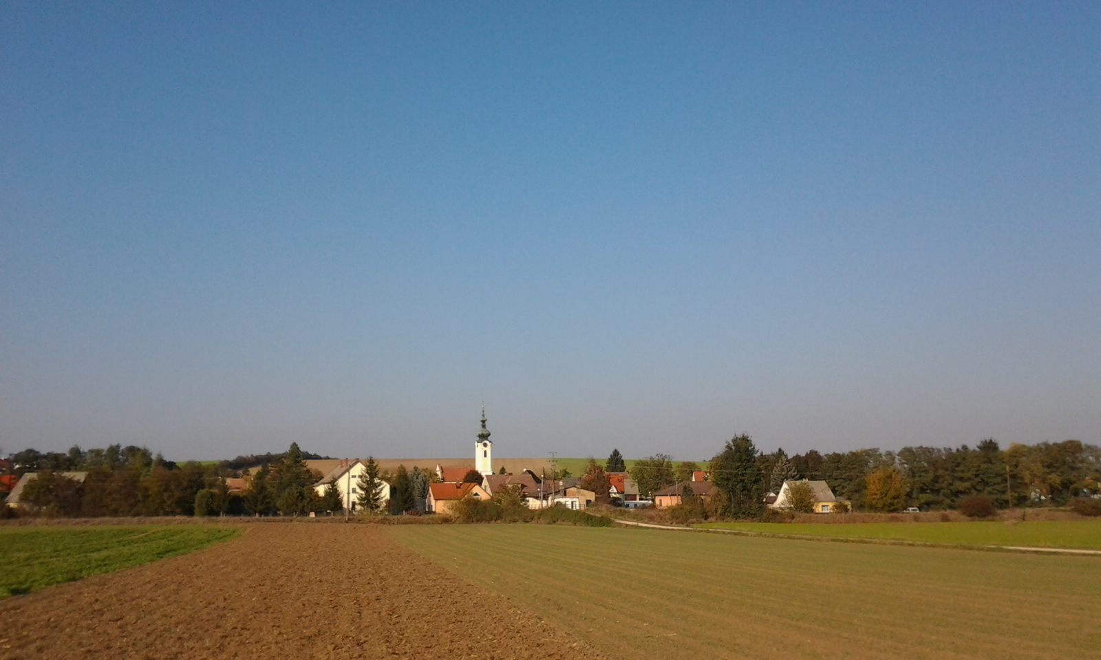 Hüttendorf, part of Mistelbach, Lower Austria